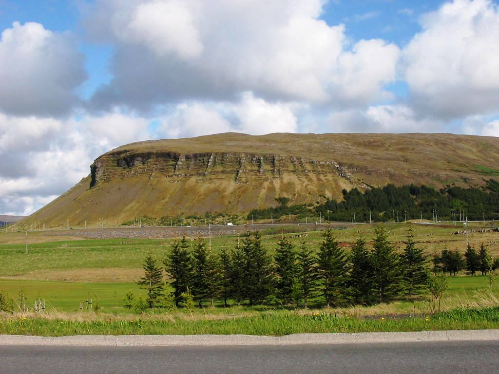 Mountain Úlfarsfell in Reykjavik, Iceland. As seen from Staðir district.